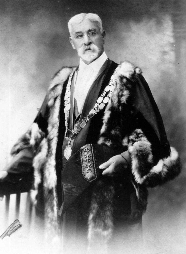 Frank J. Paterson, Mayor of Toowoomba, ca. 1931. Mayor Paterson was Mayor of Toowoomba from 1931 till 1933. He is pictured in full mayoral robes.